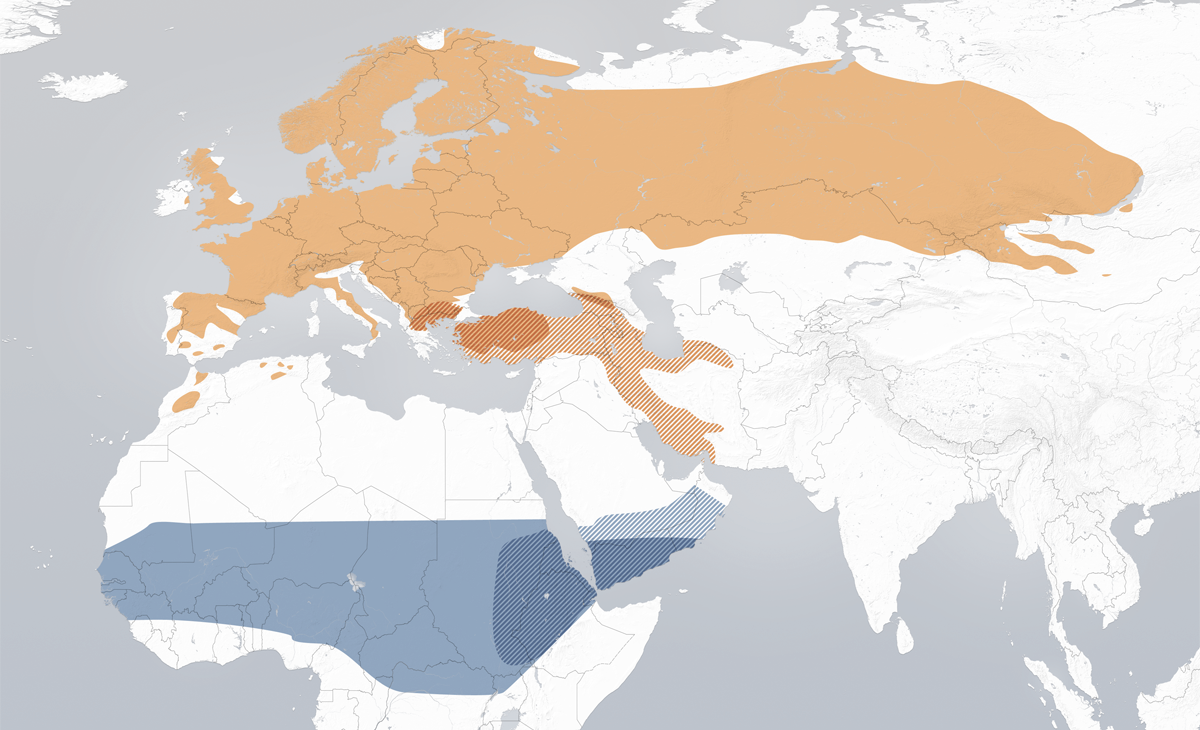 Breeding (orange) and wintering distribution (blue) of the Redstart (Phoenicurus phoenicurus), filled: Ph. ph. phoenicurus, striped: Ph. ph. samamisicus.